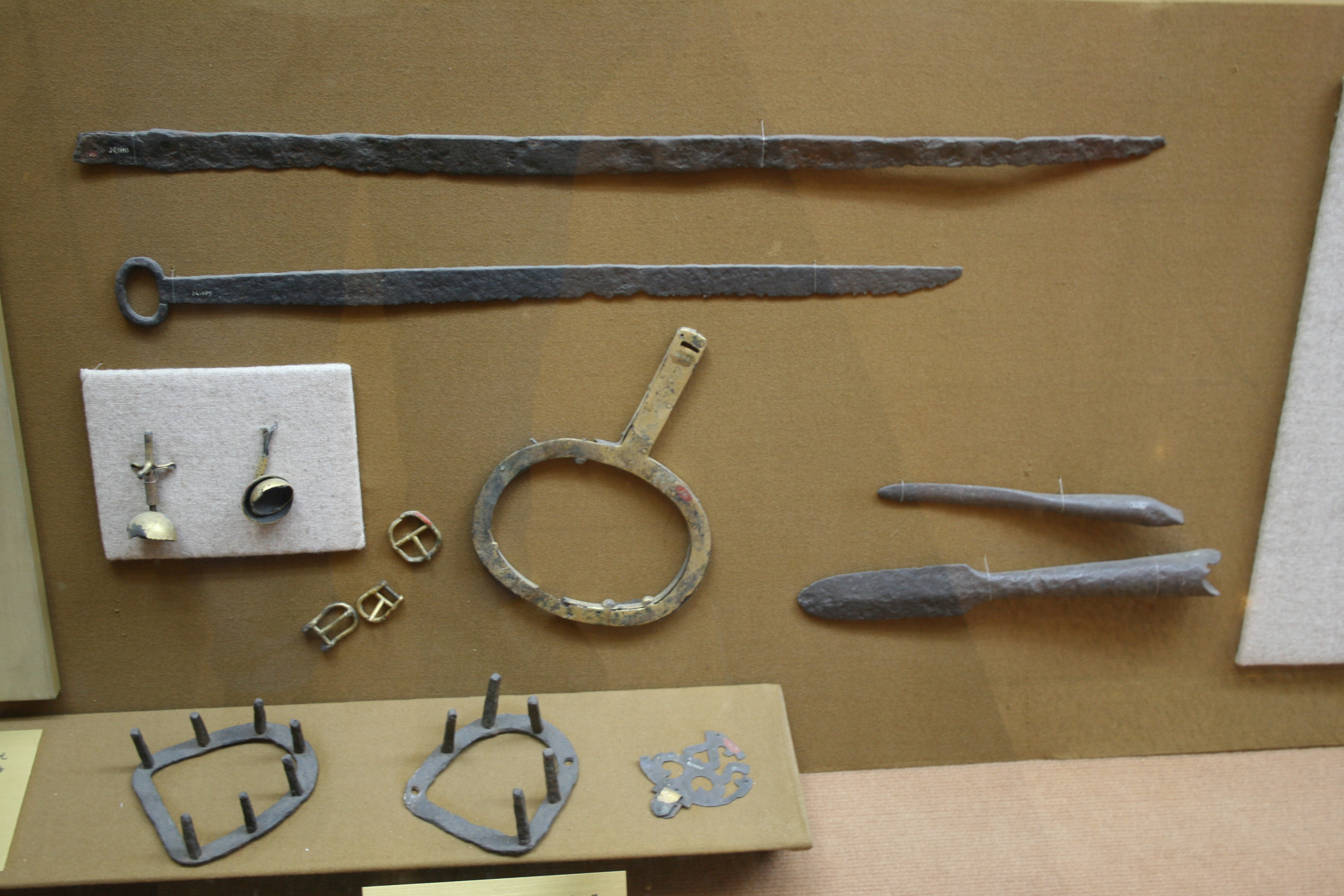 Han weapons and horse utensils